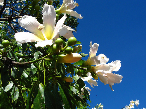 white paineiras flowers